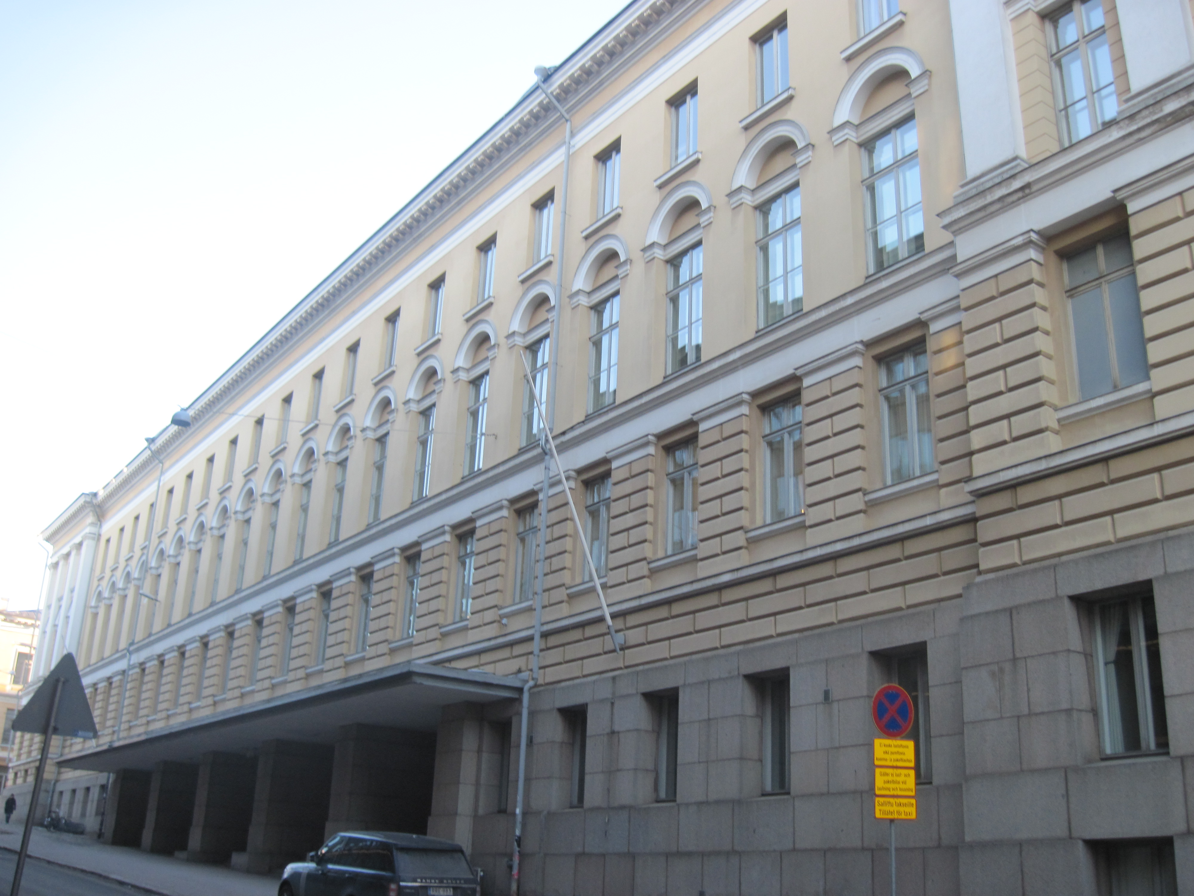 The new side of the main building of Helsinki University, Fabianinkatu 33